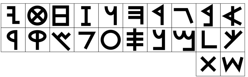 Paleo-Hebrew Alphabet